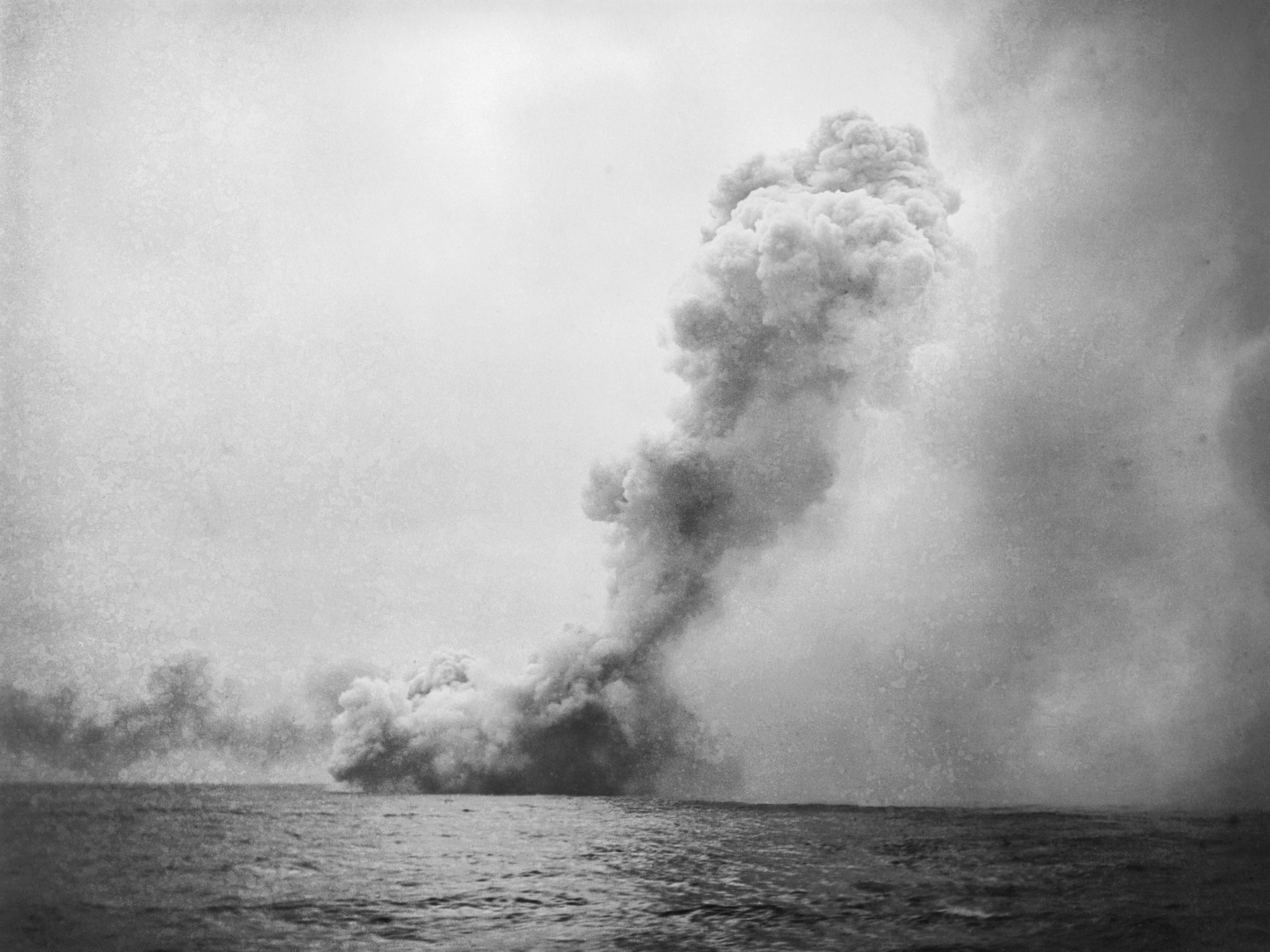 Destruction of the battlecruiser HMS Queen Mary at the Battle of Jutland